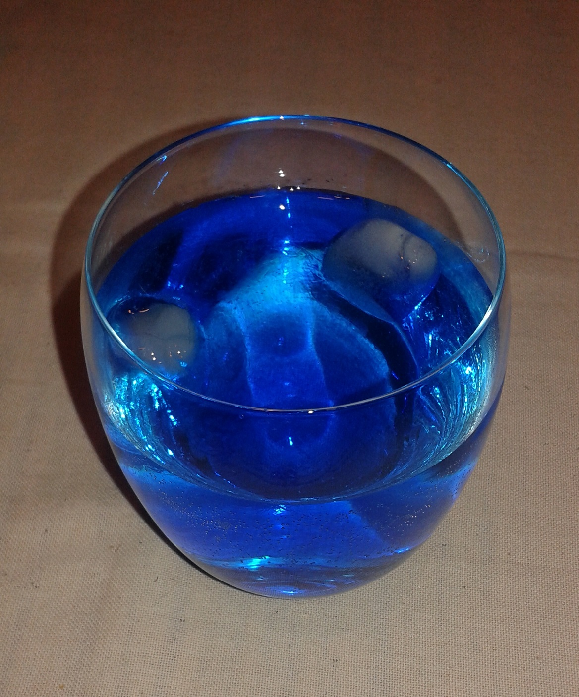 Vodka with Blue Curacao syrup (coloured with e133).